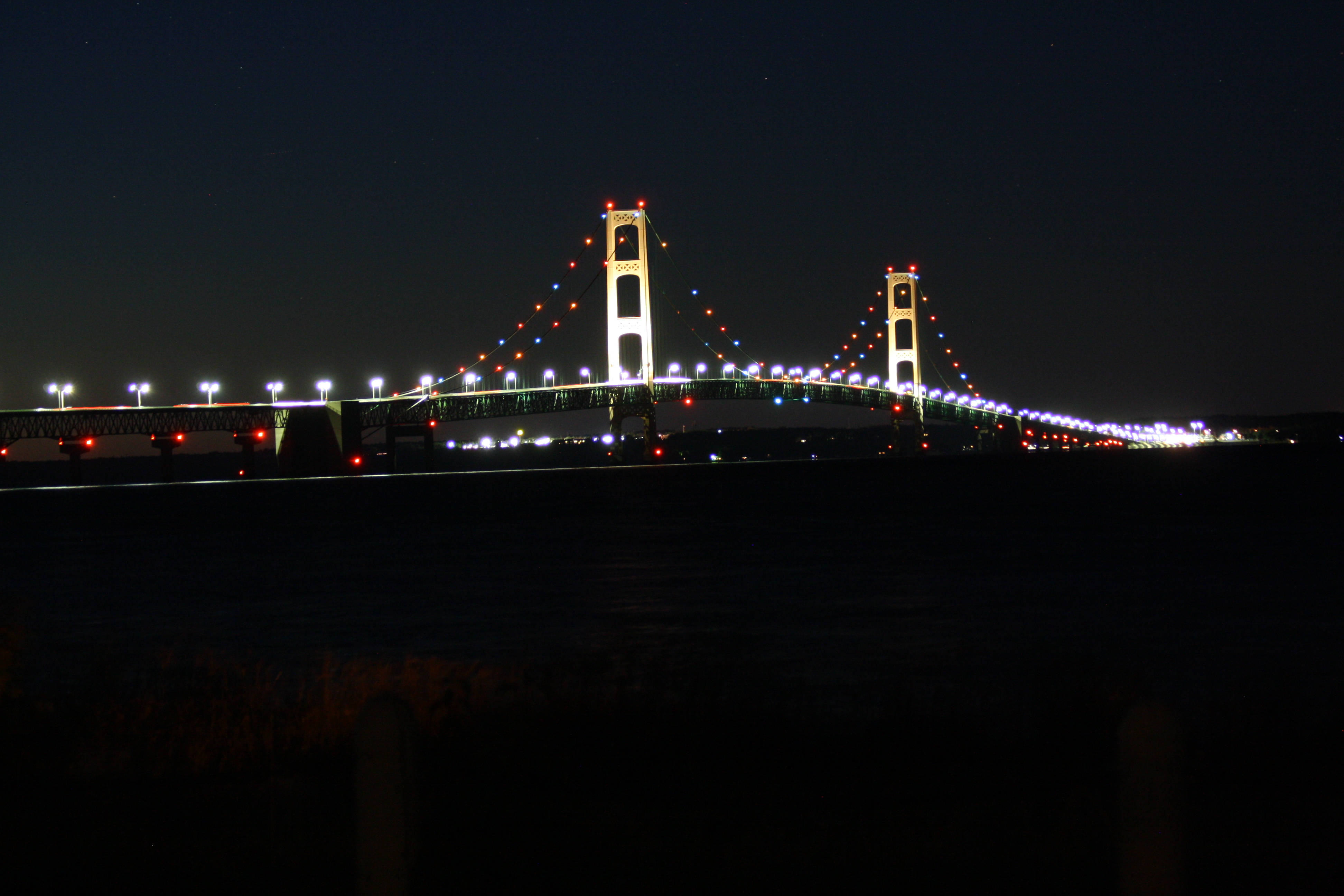 The Mackinac Bridge at nightfall.